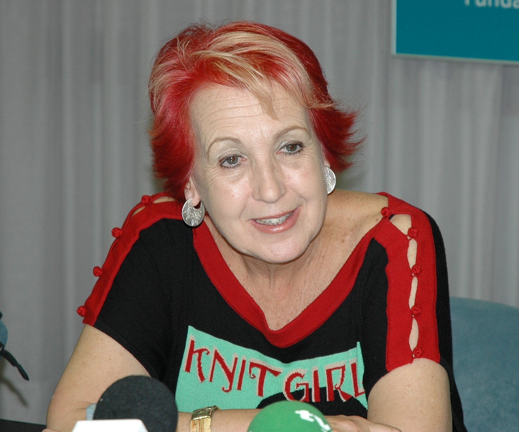 Rosa María Calaf